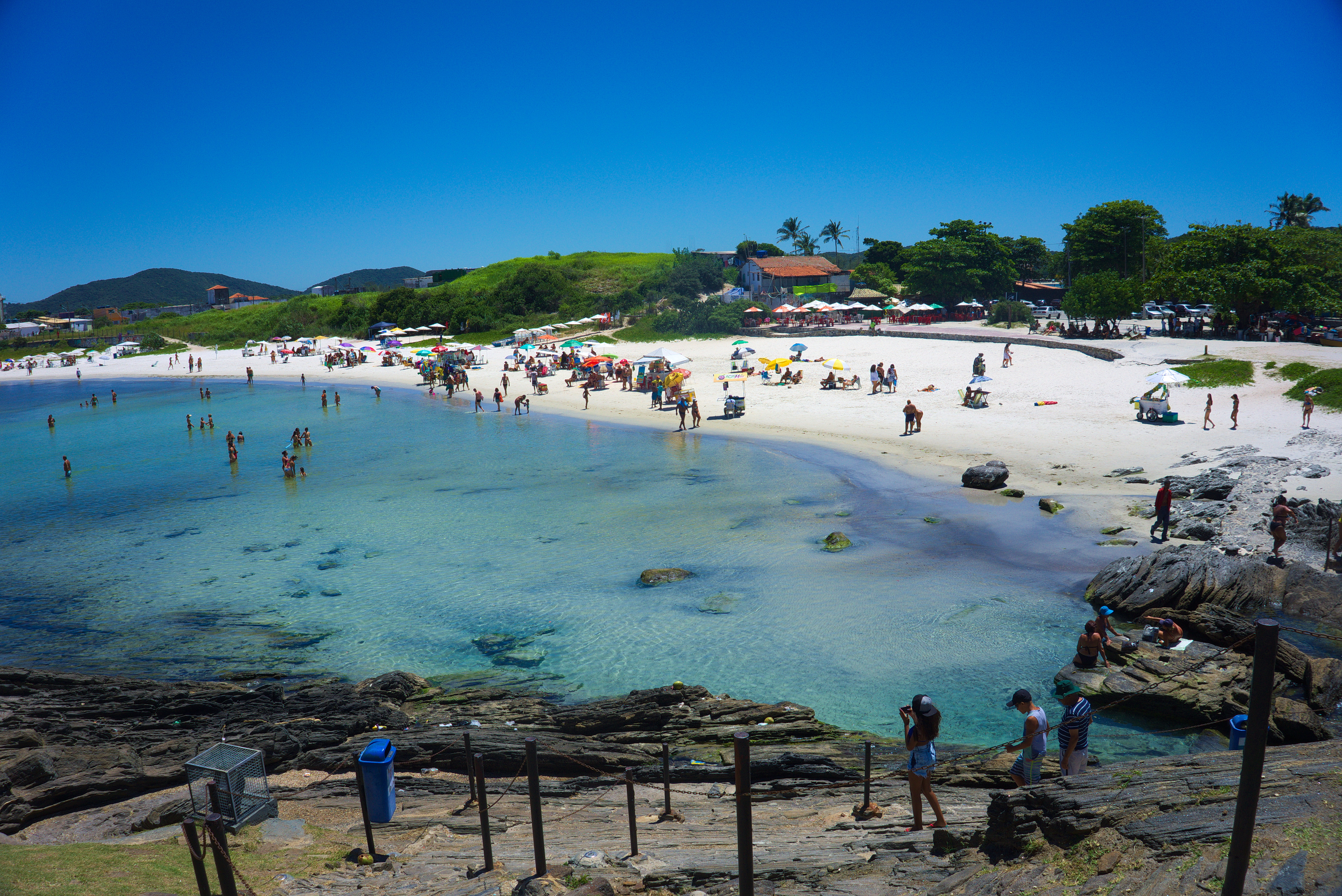 View of Forte Sao Mateo beach, Cabo Frio, Brazil